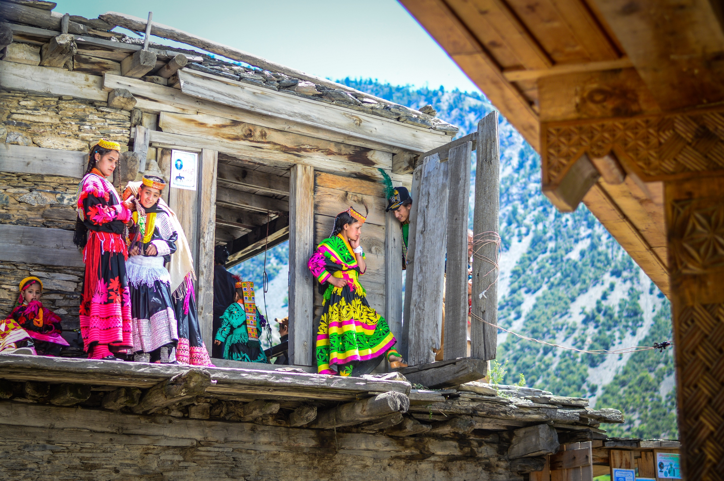 An image of the Kalash Tribe based in rumbur village, Chitral